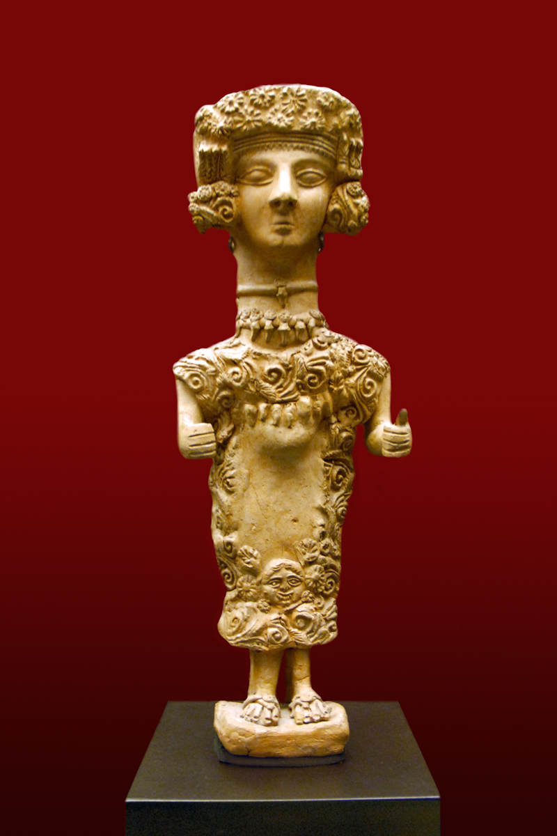 Carthaginian female figure.